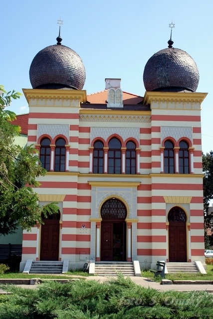 Synagogue Malacky